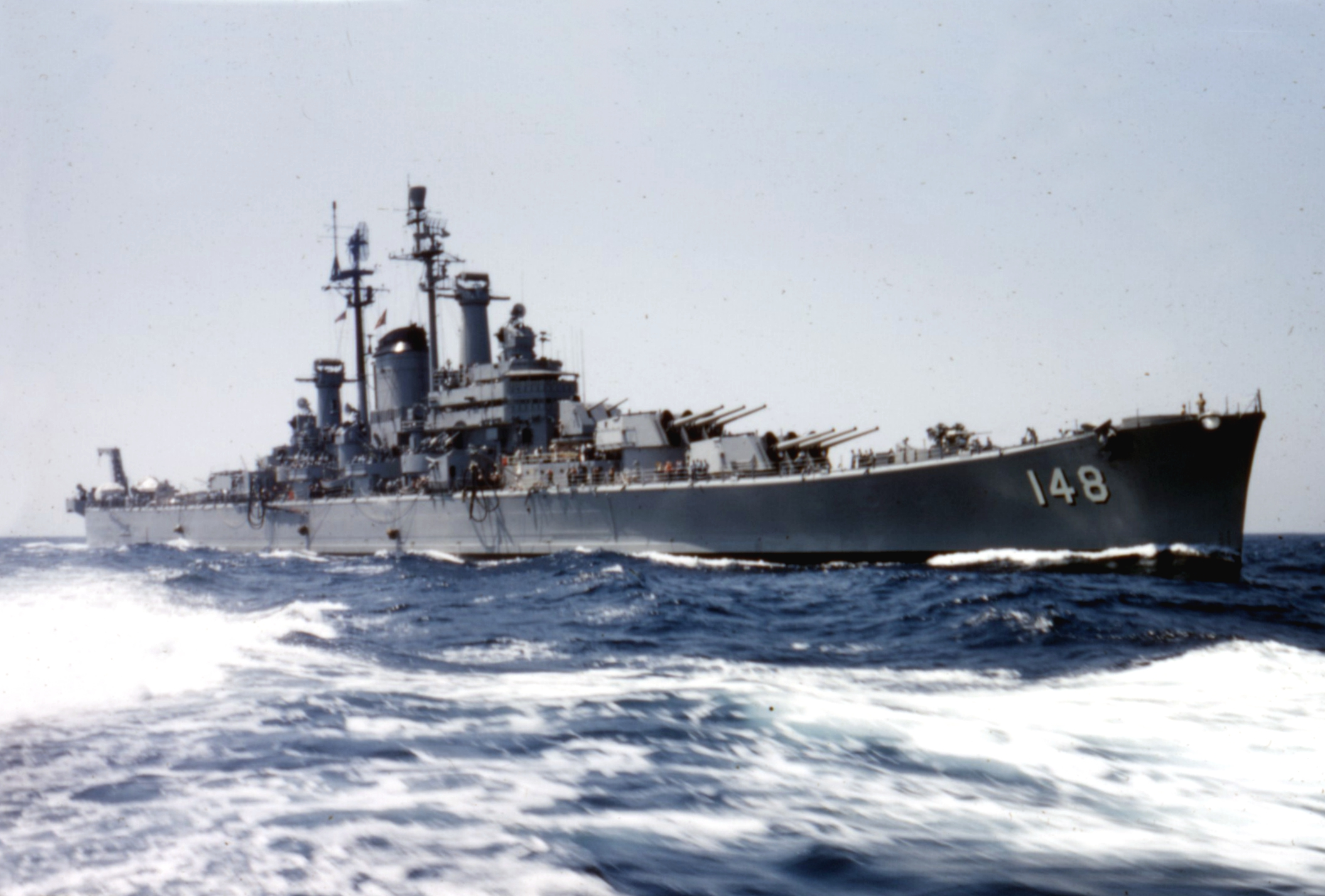 The U.S. Navy heavy cruiser USS Newport News (CA-148) underway in the Mediterranean Sea on 9 September 1957.